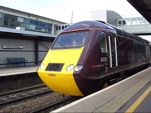 CrossCountry HST Power Car 43301 at Bristol Parkway on its first day of passenger service on the 18th July 2008.